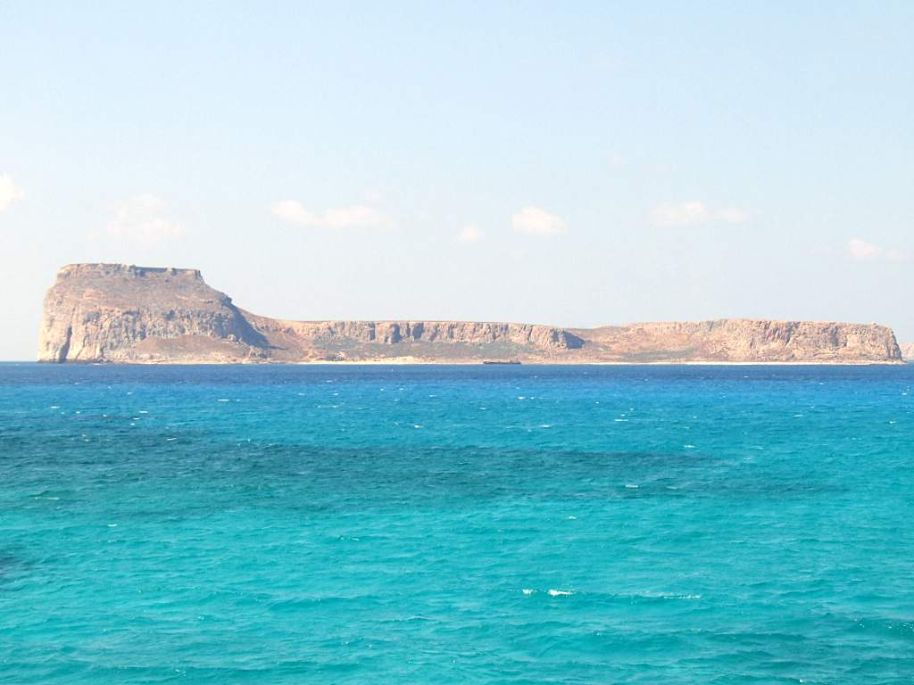 Imeri Gramvousa island, Kissamos, Crete, Greece